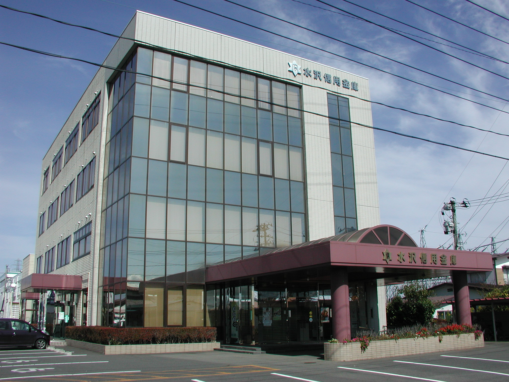 The Mizusawa Shinkin Bank Head Shops